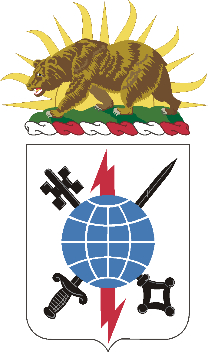 223rd Military Intelligence Batallion coat of arms from [1]